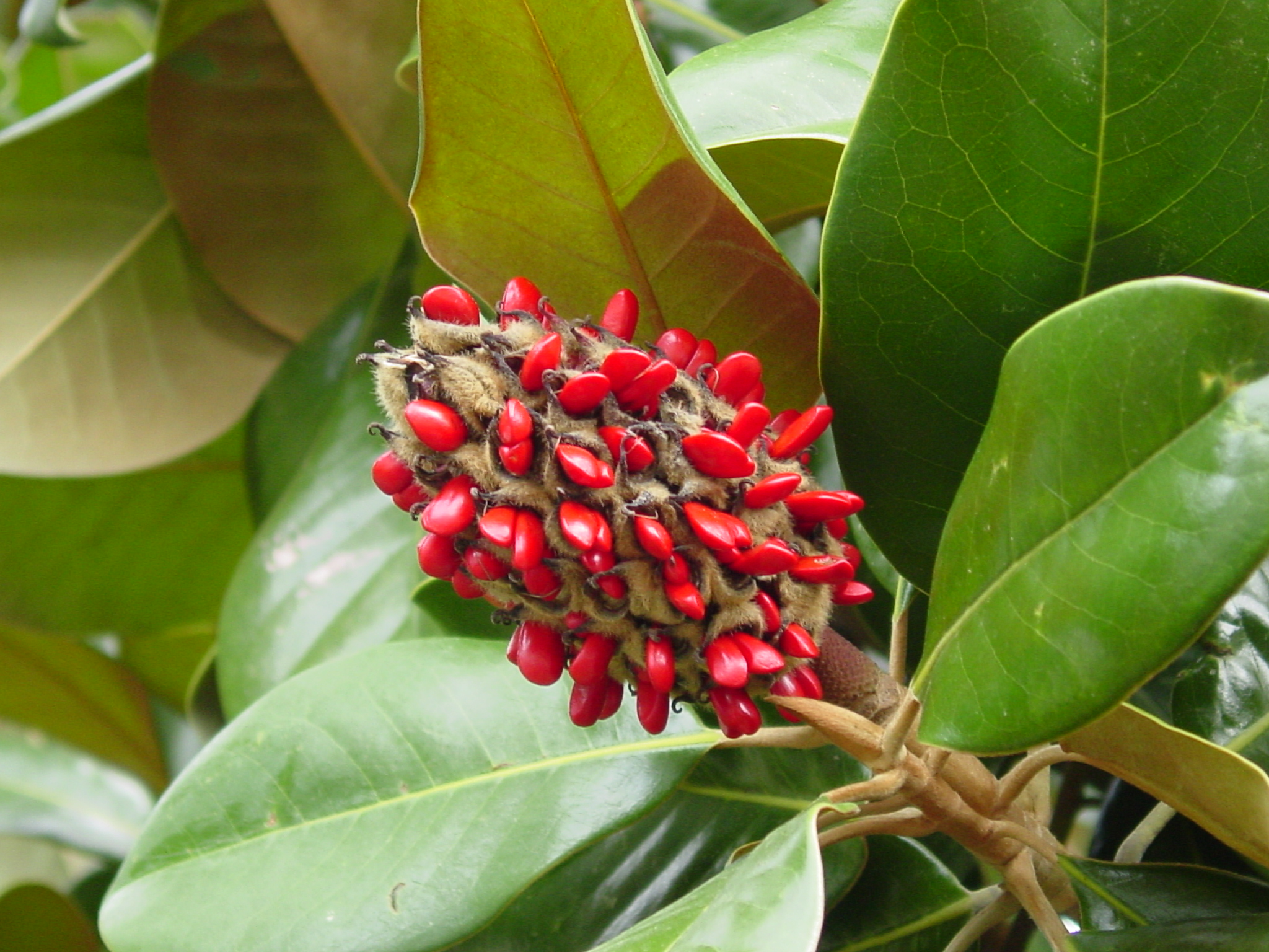 Aggregate fruit with exposed seeds of the Southern Magnolia (Magnolia grandiflora) in Oxford, Mississippi, USA.